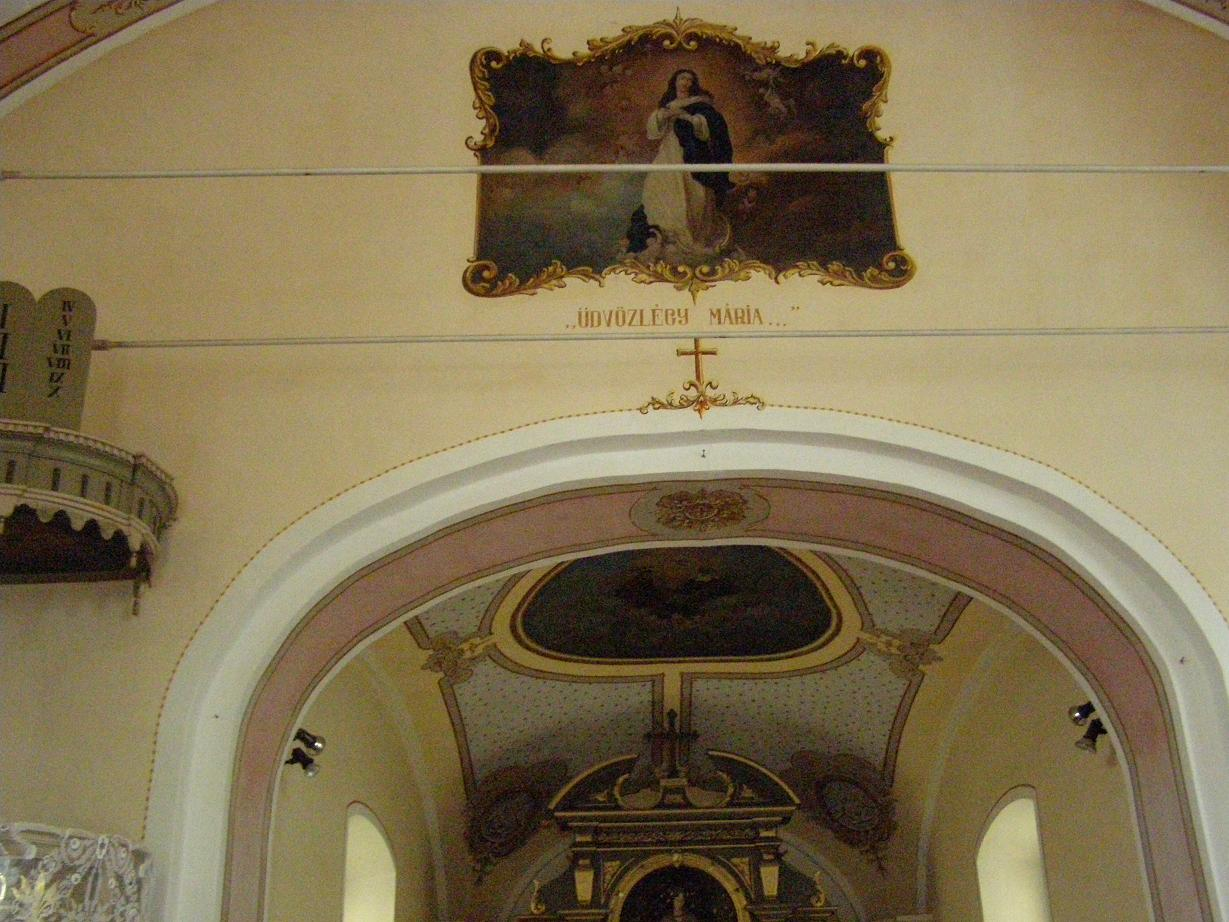 The nave in the Church of Alsószölnök